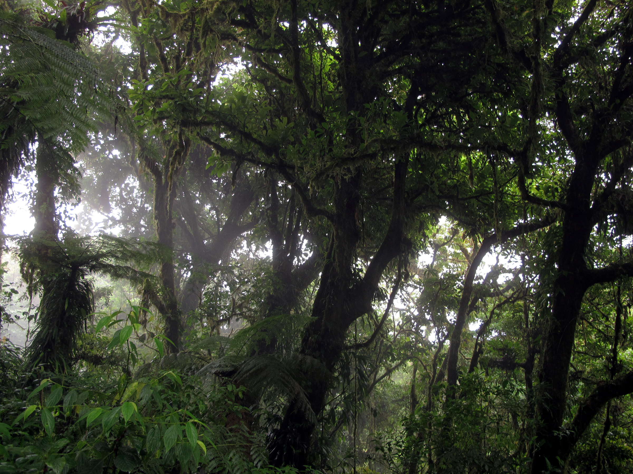 Cloud forest bosque in the Monteverde Cloud Forest Reserve — in Puntarenas Province, Costa Rica.